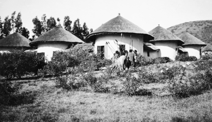 The old British Legation at Addis Ababa in 1910. This group of traditional Ethiopian tukuls served as the provisional legation while a permanent legation was being built. Wilfred Thesiger was born there in 1910. Photograph taken by his father, the British minister in Ethiopia from 1909 to 1919.